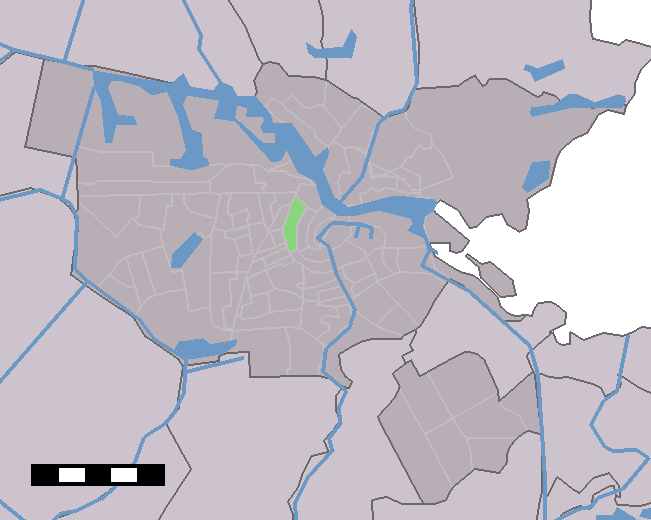 Location of neighbourhoods/districts in Amsterdam